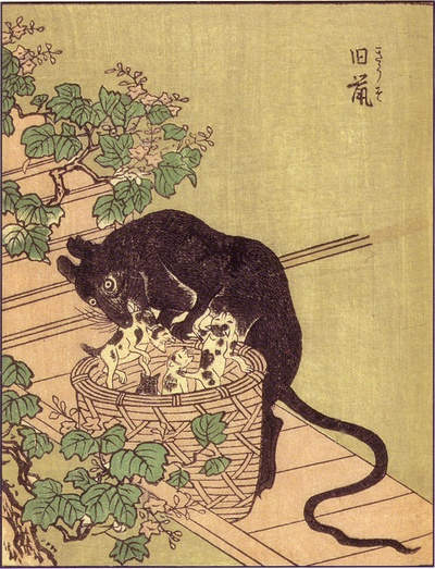 Kyūso (旧鼠) from the Ehon Hyaku Monogatari (絵本百物語)